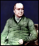 Early hand-tinted photographic portrait of William Yarrell (1784-1856), English ornithologist, seated, in double-breasted green jacket, taken in 1840s.